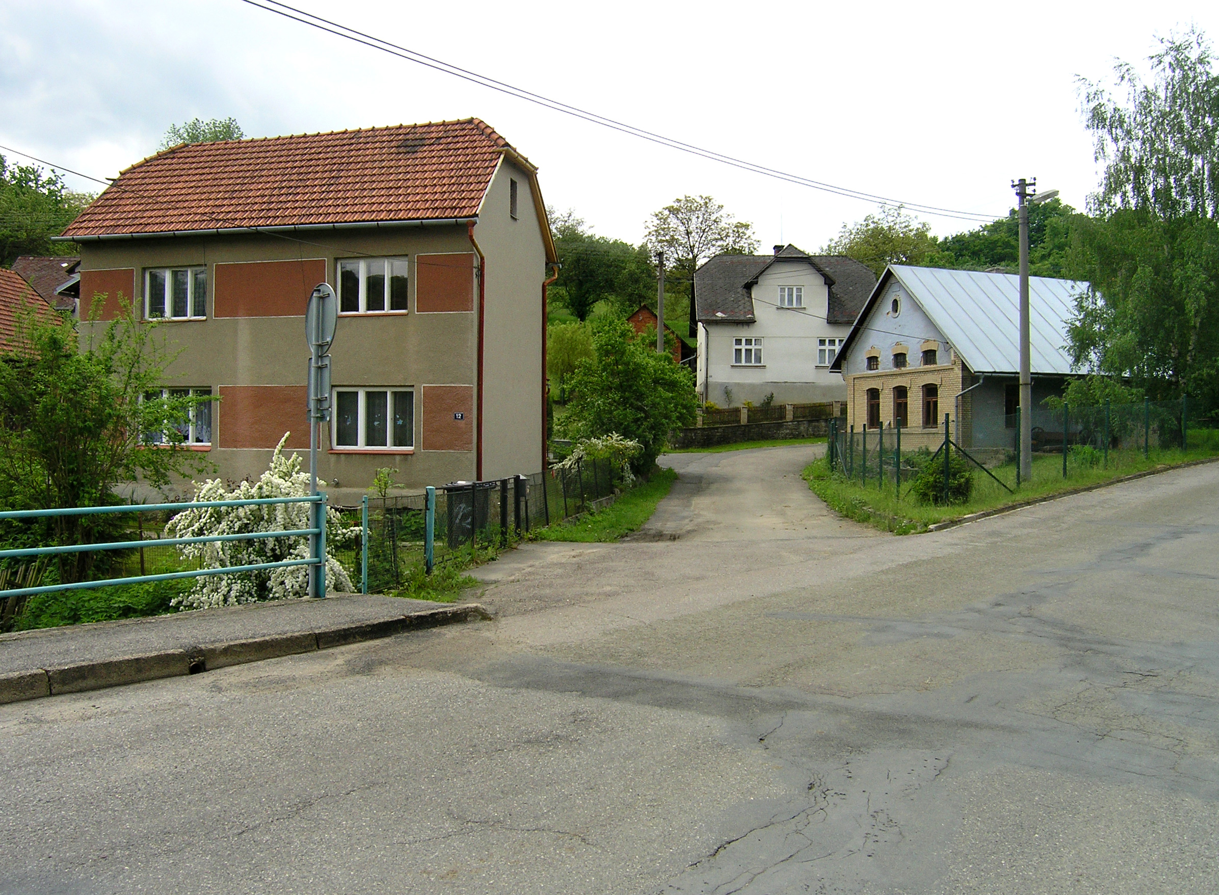 North part of Ublo village, Czech Republic